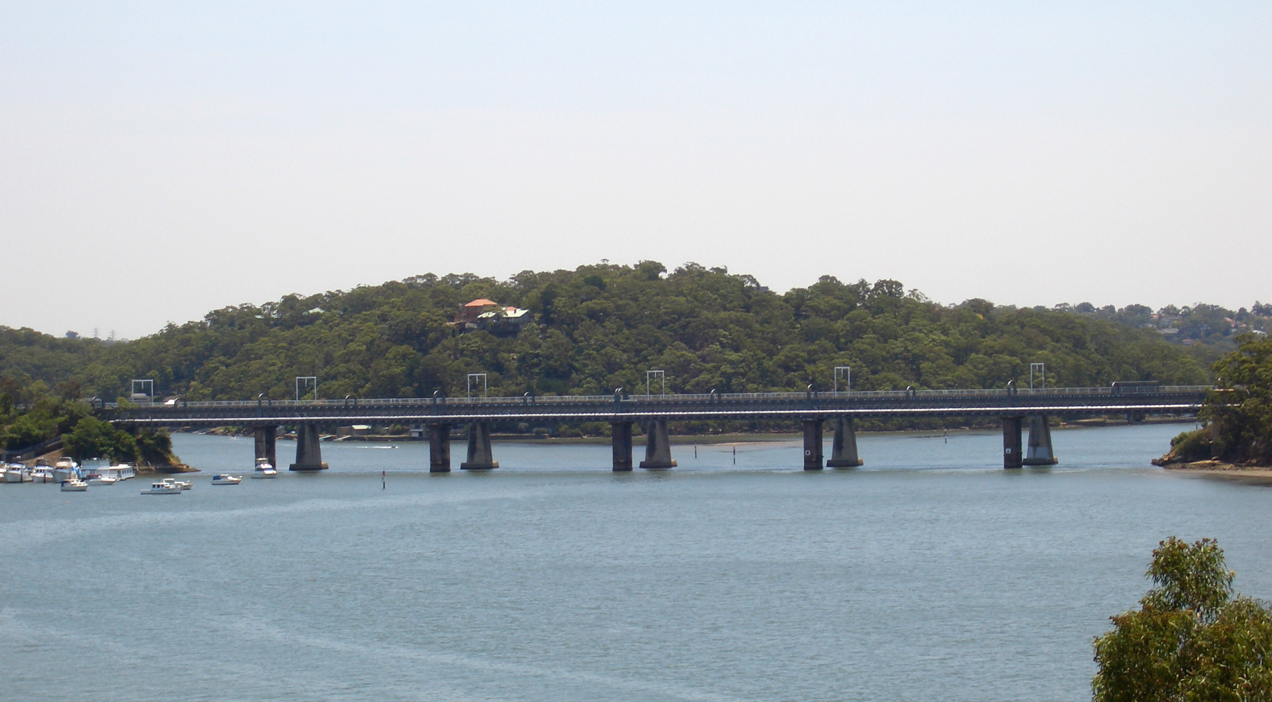 Como Railway Bridge over Georges River between Oatley and Como